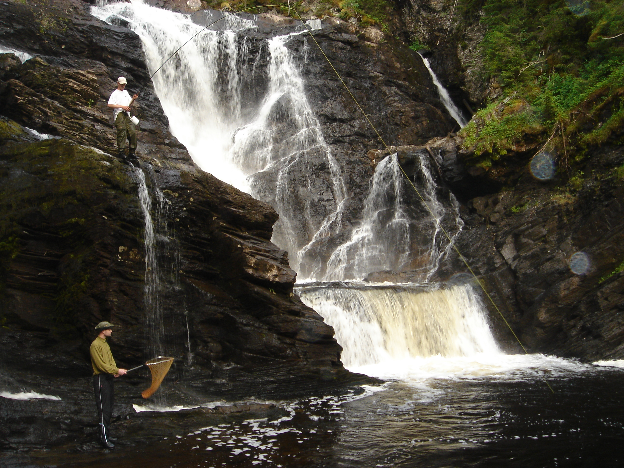 Foto taken at Dølfossen in the summer of 2005.